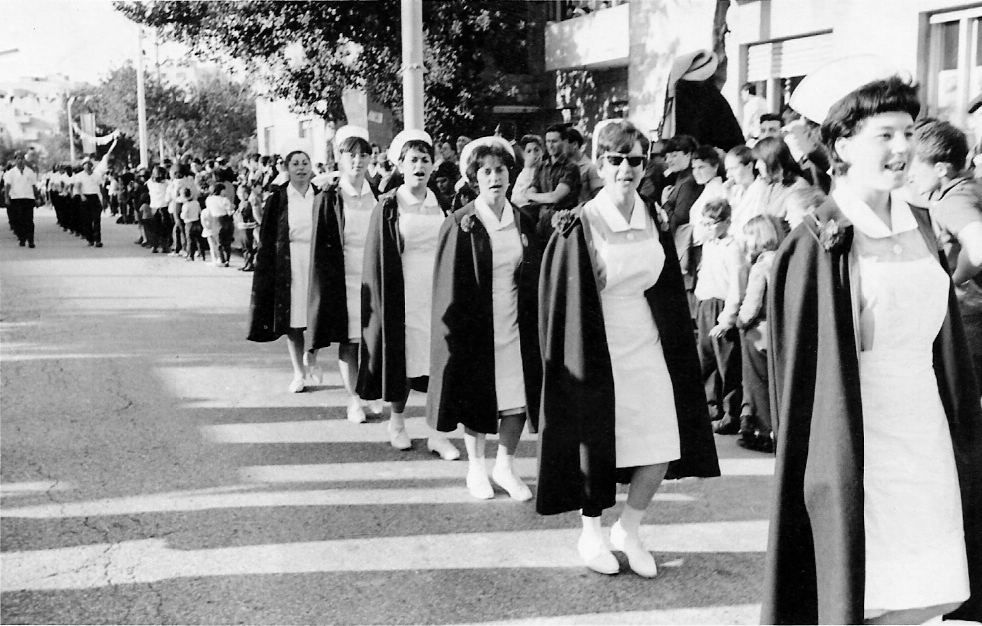 Students from the Hadassah Nurse School in the annual Jerusalem Parade, presumed to be 1965.